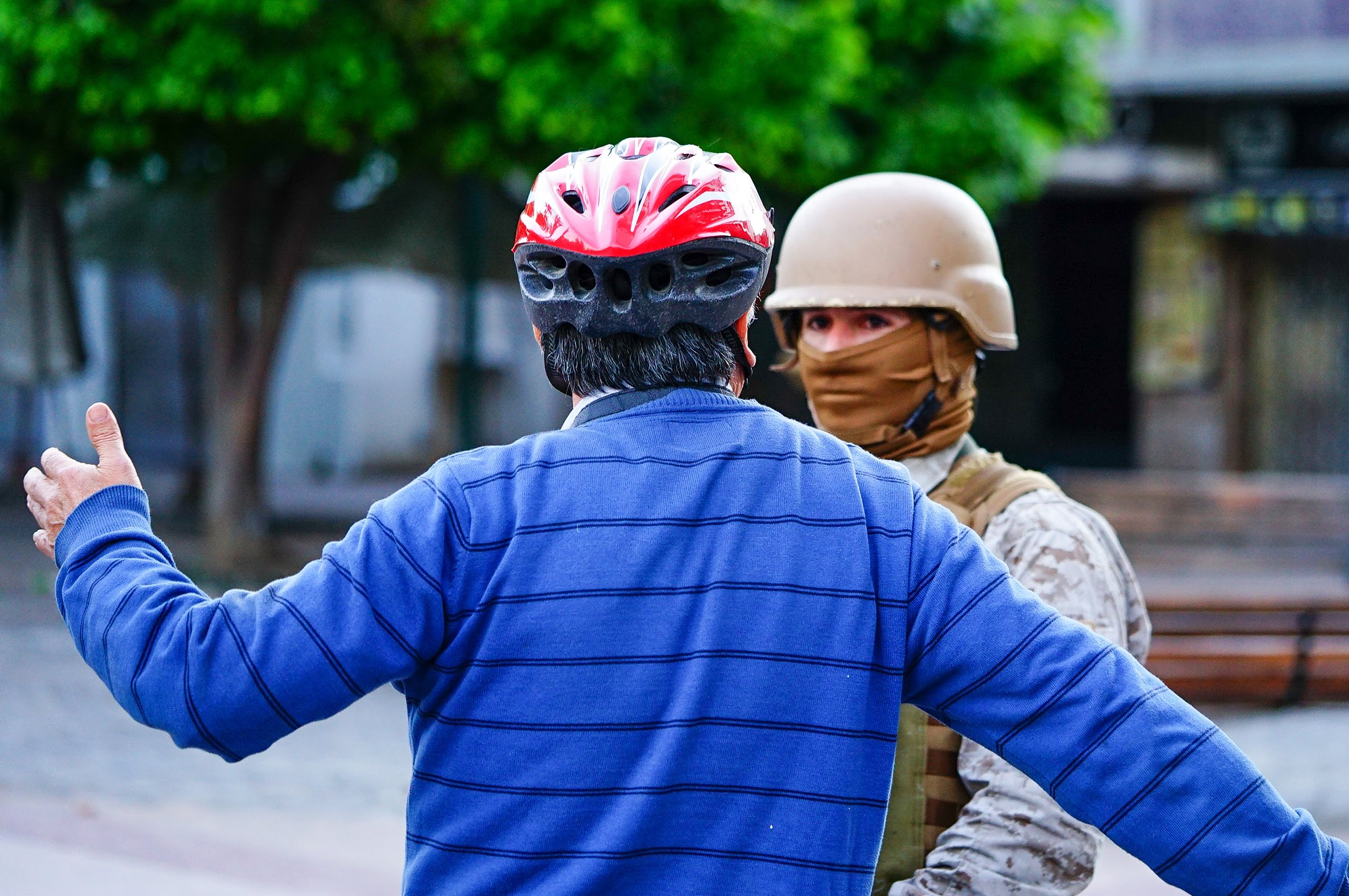 Sunday, october 20th - More than 20 thousand people gathered at the Plaza de Los Heroes (Heroes Square) at the very center of the city of Rancagua to peacefully demonstrate their will for a deep change of the state politics. This was the first masive march in more than 30 years.